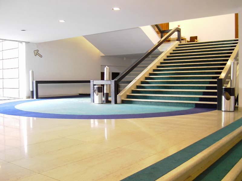 Theater staircase in Zenica, Bosnia and Herzegovina.